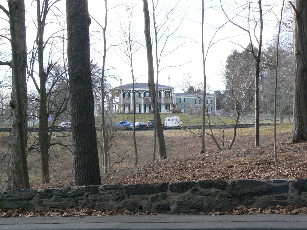 One of the several estate houses in the Green Hill Historic District in Brookline, Massachusetts.